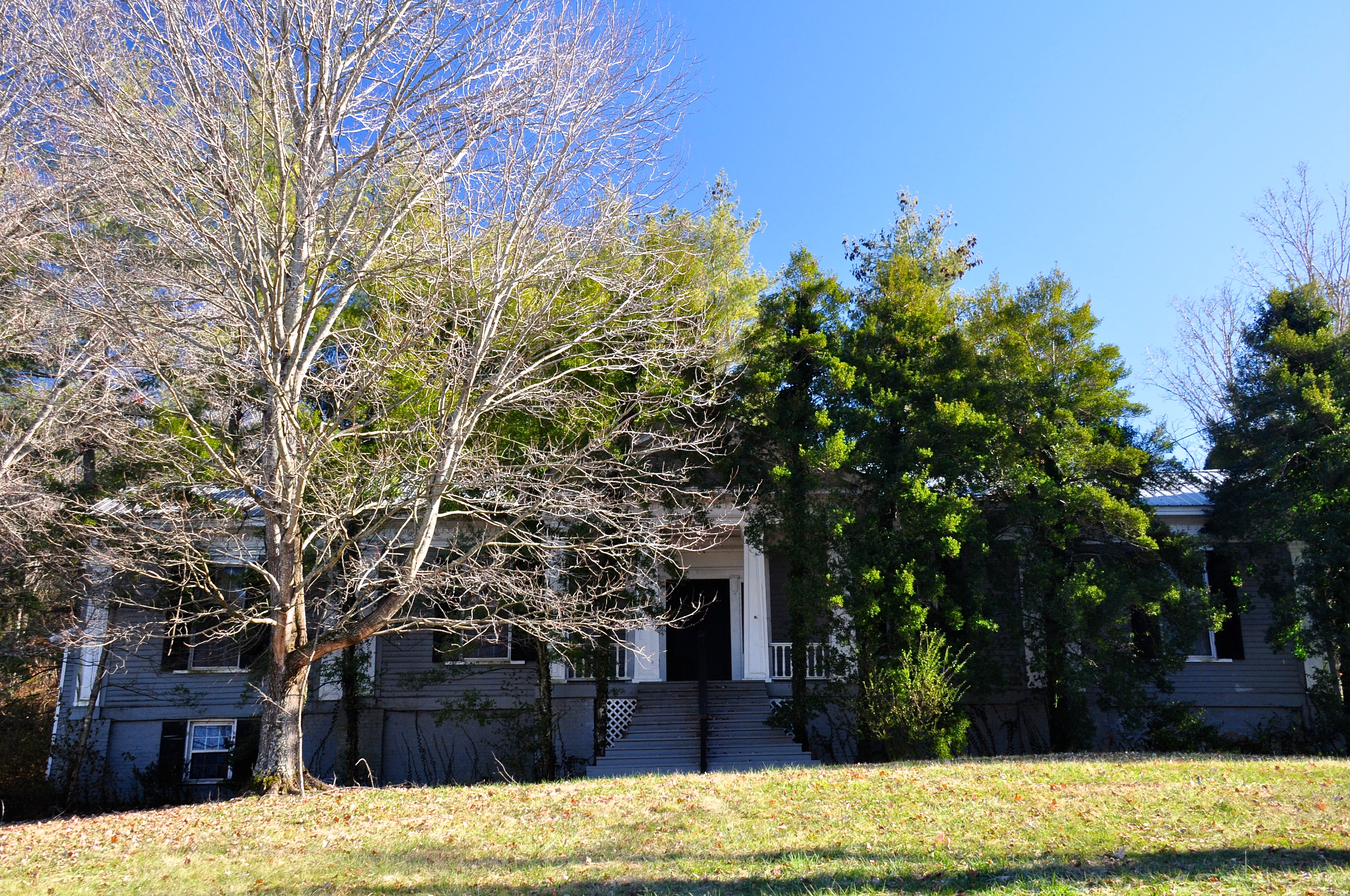 George W. Tillery House, U.S. Route 31 Pulaski